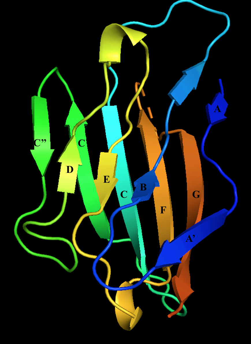 PDB Structure: 1NEU Structure of Extracellular domain of Myelin Protein Zero with Labelled Beta Sheets